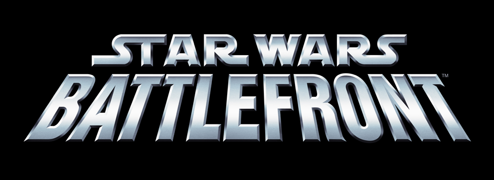 Logo of Star Wars Battlefront.